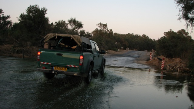 sewage flowing on Zeelim Bridge, near Kibbutz Zeelim, Nahal Habsor.